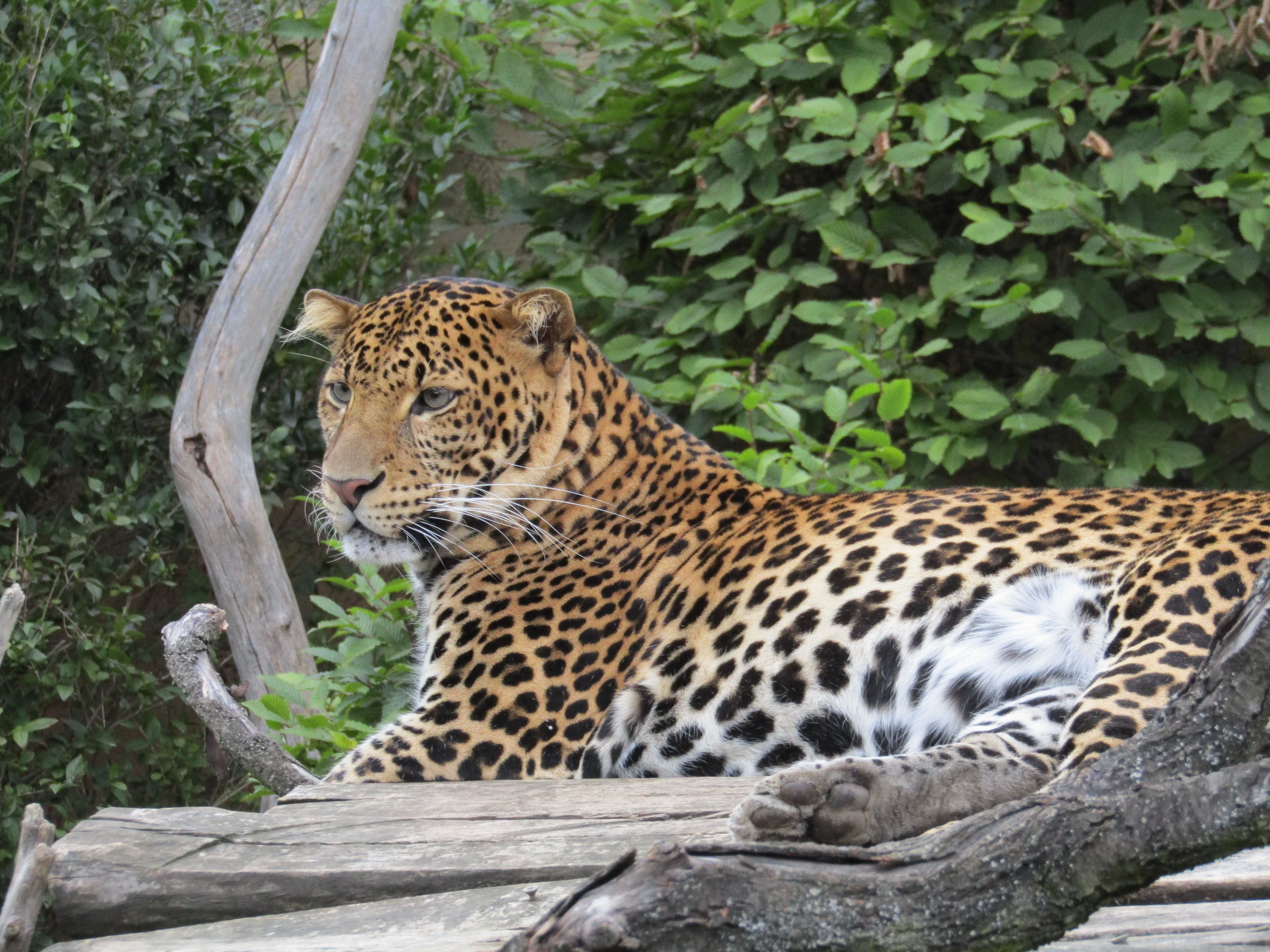 Panthera pardus melas in Prague Zoo